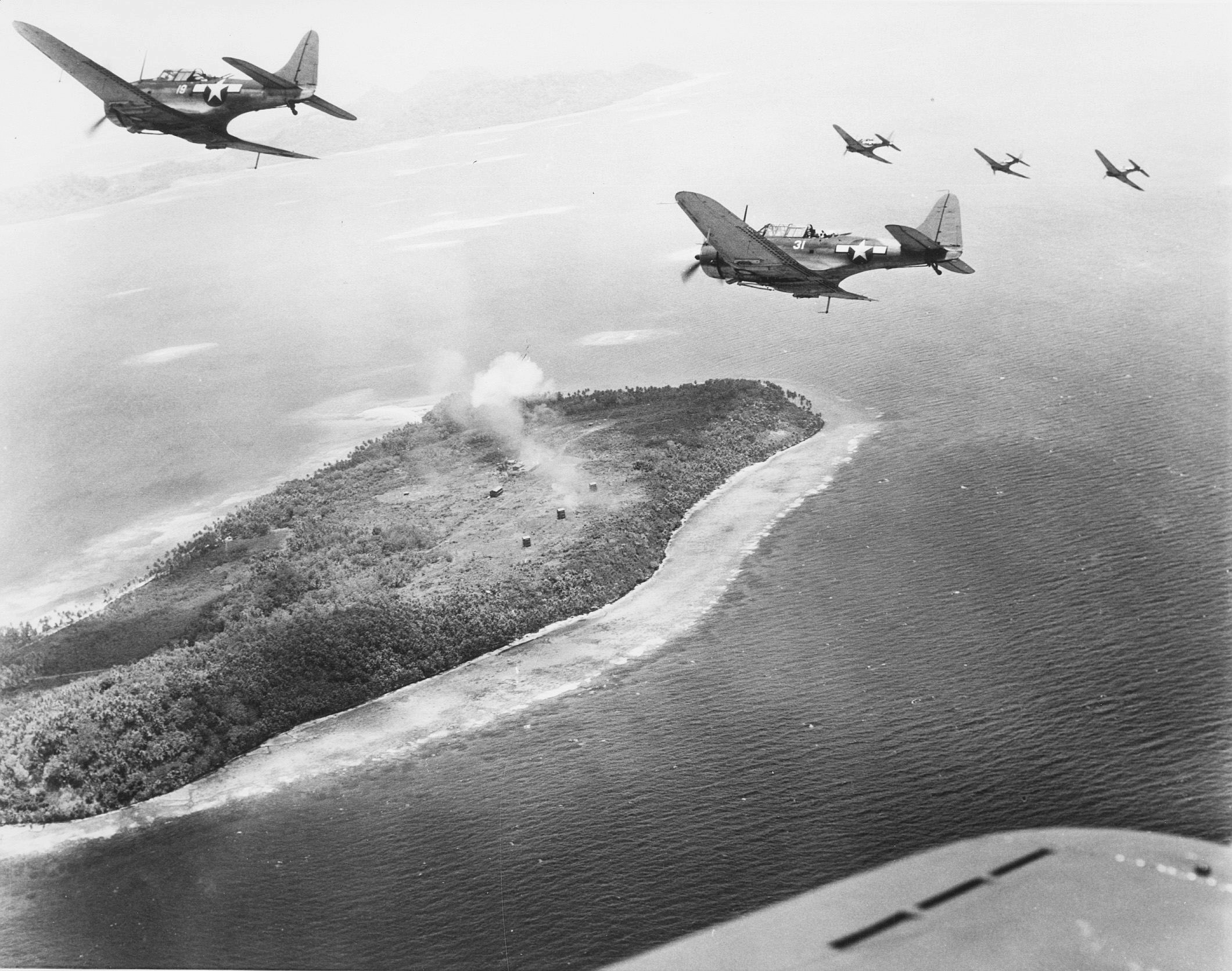 U.S. Navy Douglas SBD-5 Dauntless dive bombers of bombing squadron VB-16 off USS Lexington (CV-16) fly low over Japanese installations on Param Island, Truk Atoll, 17-18 February 1944. Note the smoke rising from the buildings. VB-16 operated from Lexington during the period September 1943-June 1944, and was for a time one of only two Dauntless squadrons assigned to Pacific fleet carriers. The squadron participated in the famous attack against the Japanese Fleet during the Battle of the Philippine Sea in June 1944.